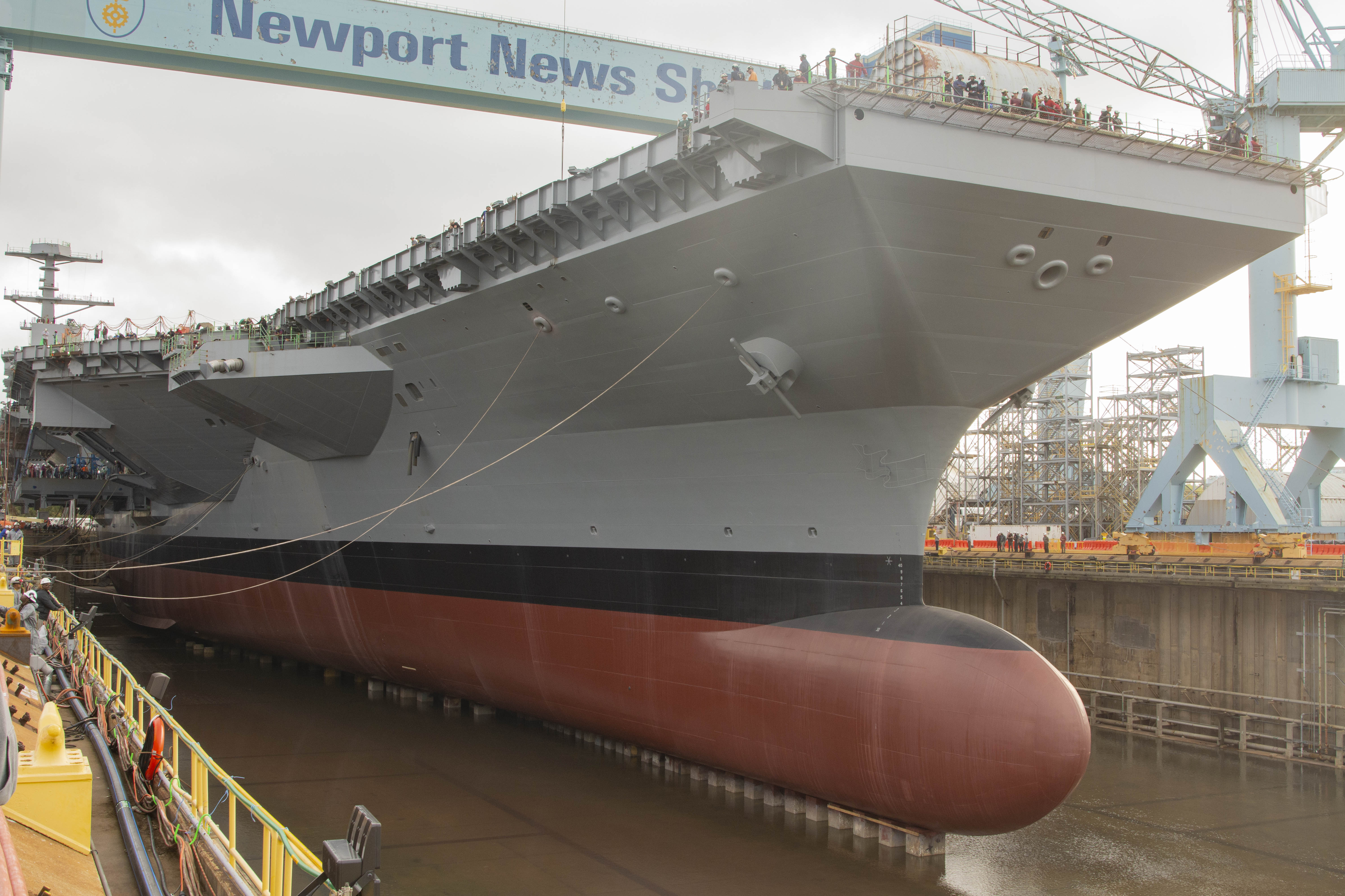 The U.S. Navy aircraft carrier USS John F. Kennedy (CVN-79) reached another construction milestone on 29 October 2019, as its dry dock area was flooded three months ahead of its slated production schedule leading up to the christening of the second Ford-class aircraft carrier, scheduled for 7 December 2019. The flooding of the dry dock followed other milestones, including the laying of the ship's keel on 22 August 2015, the placement of the 588-metric ton island superstructure on 29 May 2019, and the arrival of the crew on 1 October 2019. Kennedy was under construction at Huntington Ingalls Industries-Newport News Shipbuilding, Newport News, Virginia (USA).